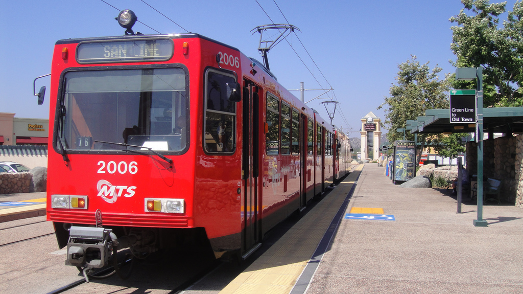 Description: San Diego Trolley at Santee Trolley Town Center Author: Josh Truelson [cooljuno411] Date Created: Tuesday, May 26, 2009 [2009-05-26] Location: Santee Trolley Town Center, Santee, California Event